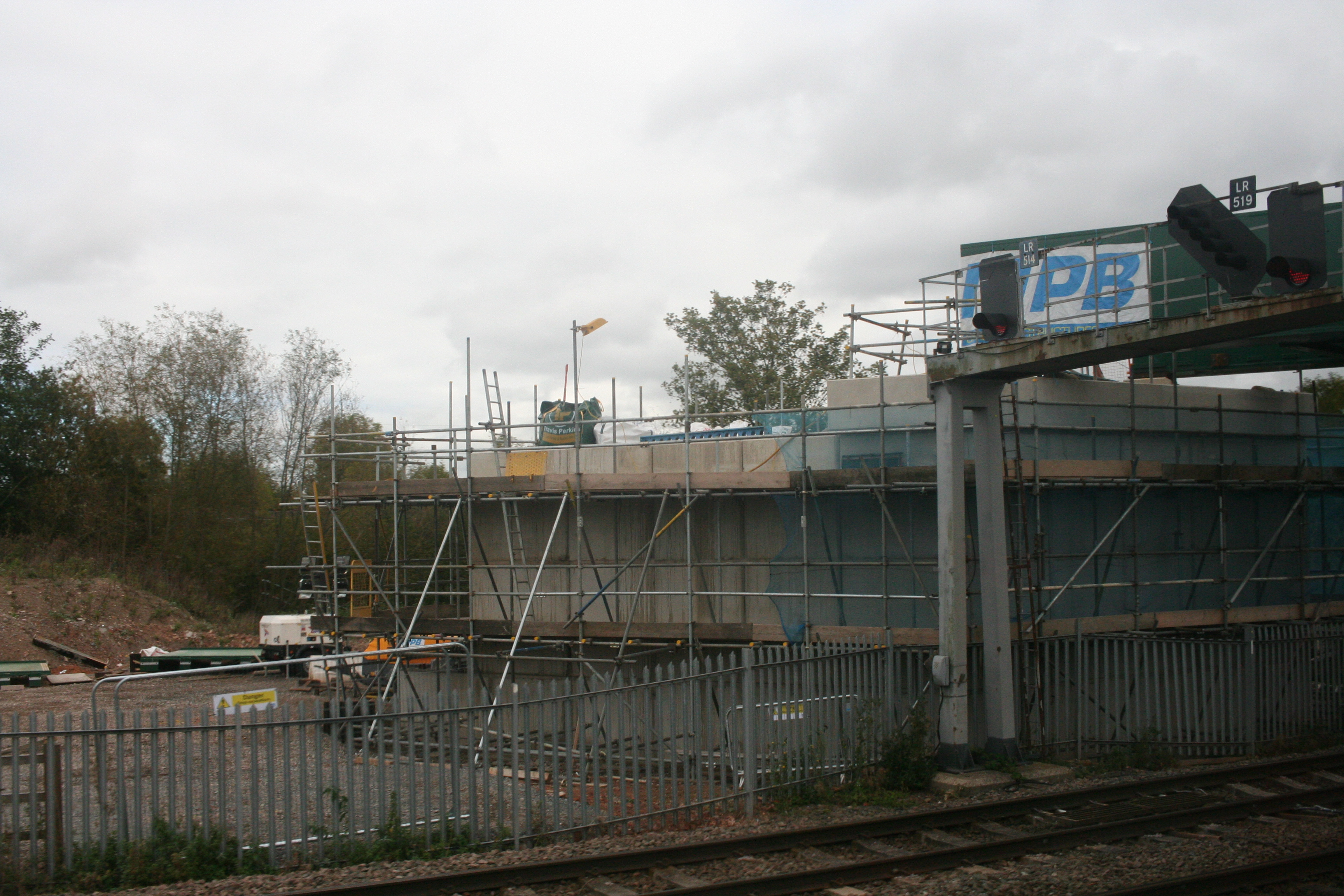 New (2017) bridge to carry the Great Central Railway over the Midland Main Line and forming the first new part of the Loughborough Gap single-line railway connection. This is the east end of the new bridge with the supporting foundations, the two main green beams, and partially-complete bridge decking. Picture taken looking eastwards from a train on the Midland Main Line Up Fast track.